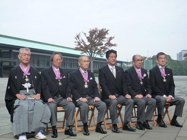 Shun'ichi Iwasaki, Director of Tohoku Institute of Technology, Gōichi Oda, actor, Ikuta Takagi, chirographer, Susumu Nakanishi, Director of Toyama Prefectural Koshi no Kuni Museum of Literature, and Tasuku Honjo, President of Shizuoka Prefectural Public University Corporation, received the Order of Culture from Emperor Akihito at the Imperial Palace in Chiyoda Ward, Tōkyō Metropolis on November 3, 2013. After that they posed for photo with Shinzō Abe, Prime Minister, at the East Garden of the Imperial Palace.(For terms of use, see 内閣府ホームページ利用規約 - 内閣府.)